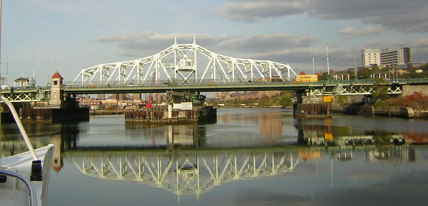 University Heights Bridge from a Circle Line boat approaching from the south.